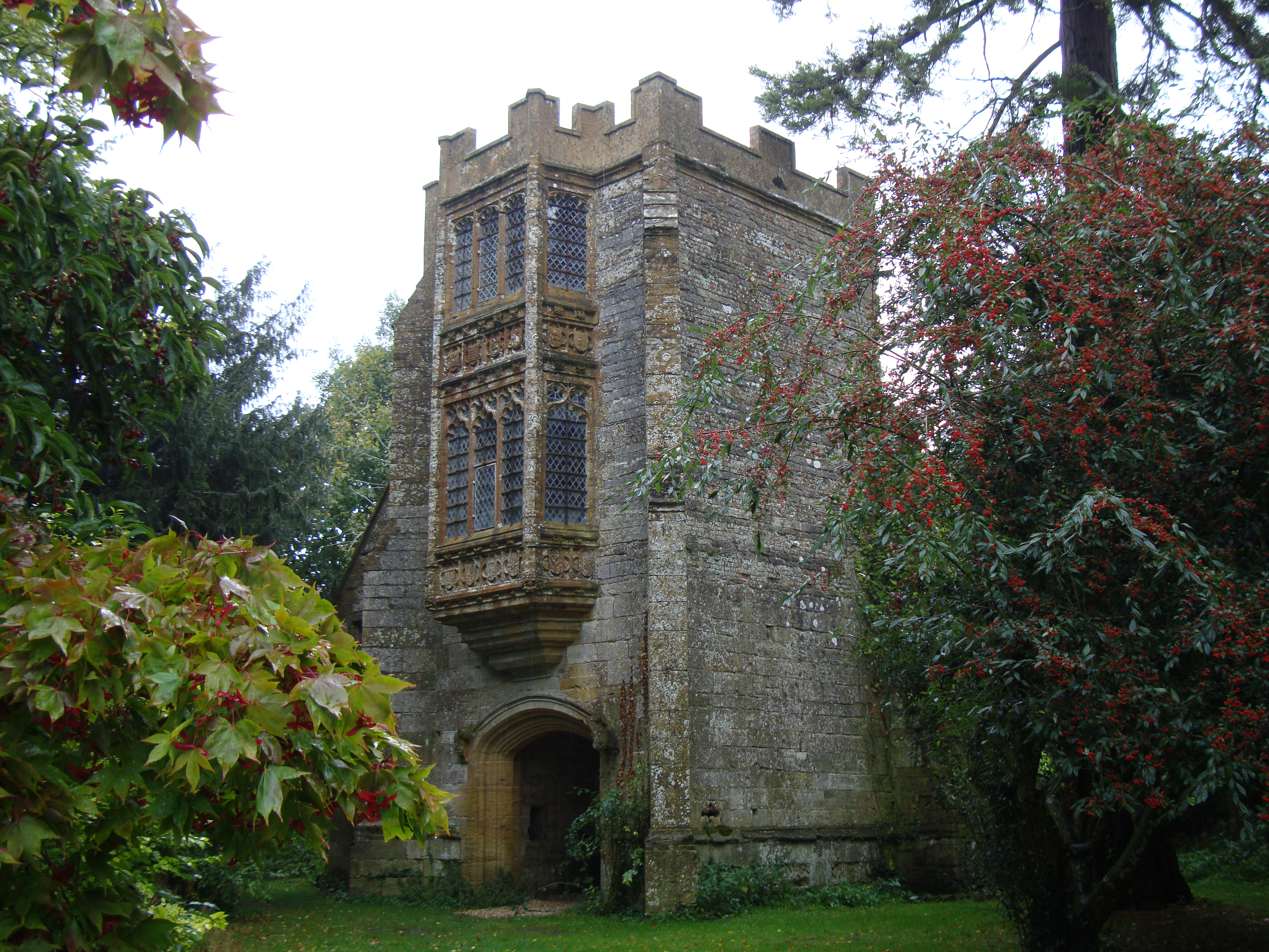 Photograph of the Abbot's Porch, Cerne Abbey, Dorset, England